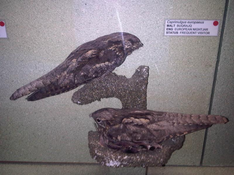 Two taxidermied European Nightjar (Caprimulgus europaeus) at the National Museum of Natural History, Vilhena Palace, Republic of Malta.